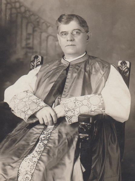 Monsignor James Pacholski (1862-1932)